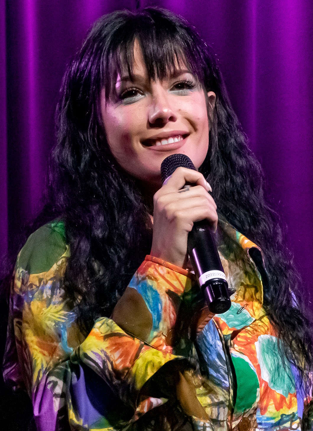 Halsey performing live at the Grammy Museum in Los Angeles on 09/23/2019.